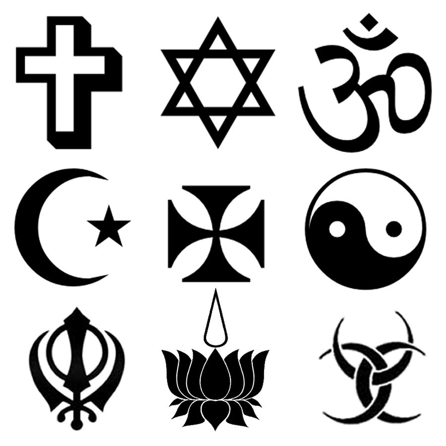 Various religious symbols - From left to right: 1st Row Latin Cross, Star of David, Omkar (Aum) 2nd Row Star and crescent, Cross pattée, Yin-yang 3rd Row Khanda, Ayyavazhi, Triple Goddess (or Diane de Poitiers)